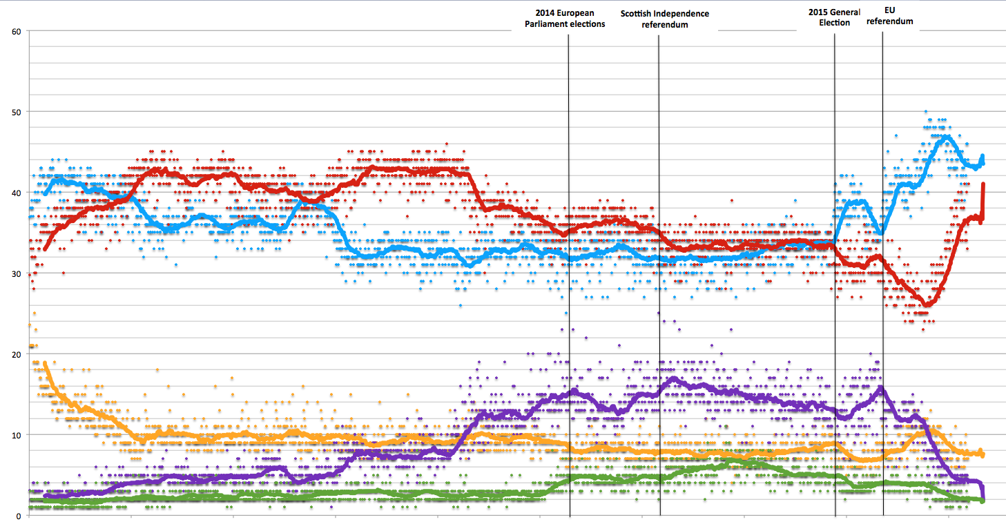 All UK-wide opinion polls since the 2010 General Election up to the 2017 General election.